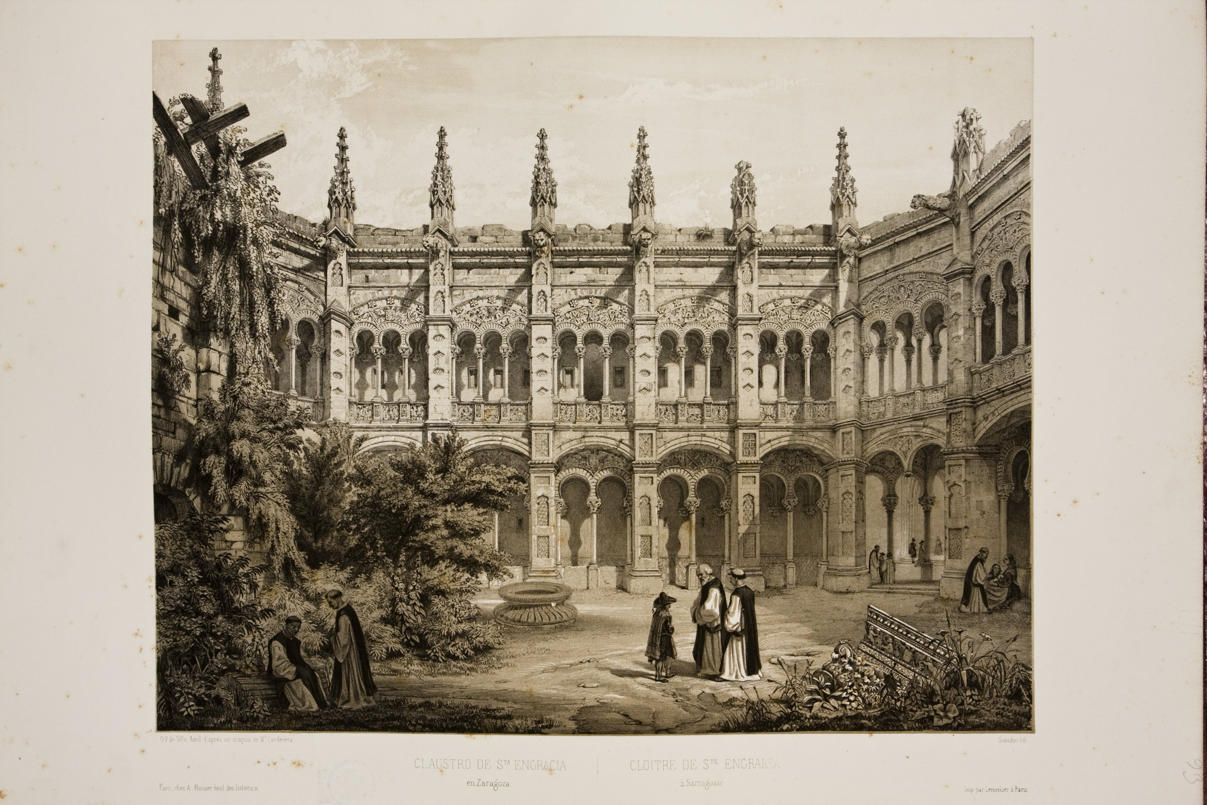 Cloister of the monastery of Santa Engracia in Zaragoza (Spain) in 1834, in España artística y monumental. Luis Sorando's collecton. Zaragoza.